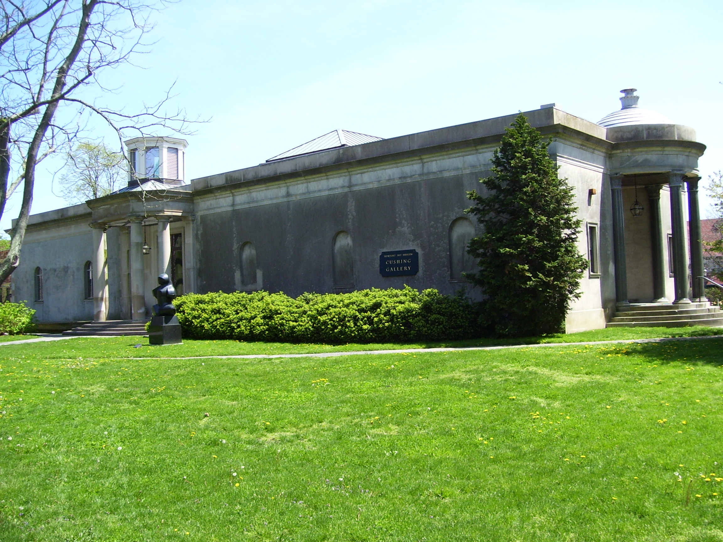 This is my pic of the Newport Art Museum Gallery from 2008.